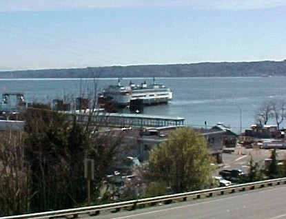 Washington State ferry at Clinton dock, Whidbey Island, WA Ferry "Cathlamet" in dock after crossing Possession Sound from Mukilteo. 2004. Photo by Ron Kerrigan (WhidbeyIslander) Category:Images of Washington Washington State ferry at Clinton dock, Whidbey Island, WA Ferry "Cathlamet" in dock after crossing Possession Sound from Mukilteo. 2004. Photo by Ron Kerrigan (WhidbeyIslander)